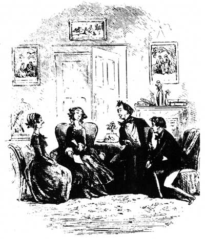 David Copperfield, Traddles and I in confidence with the Misses Spenlowby Phiz